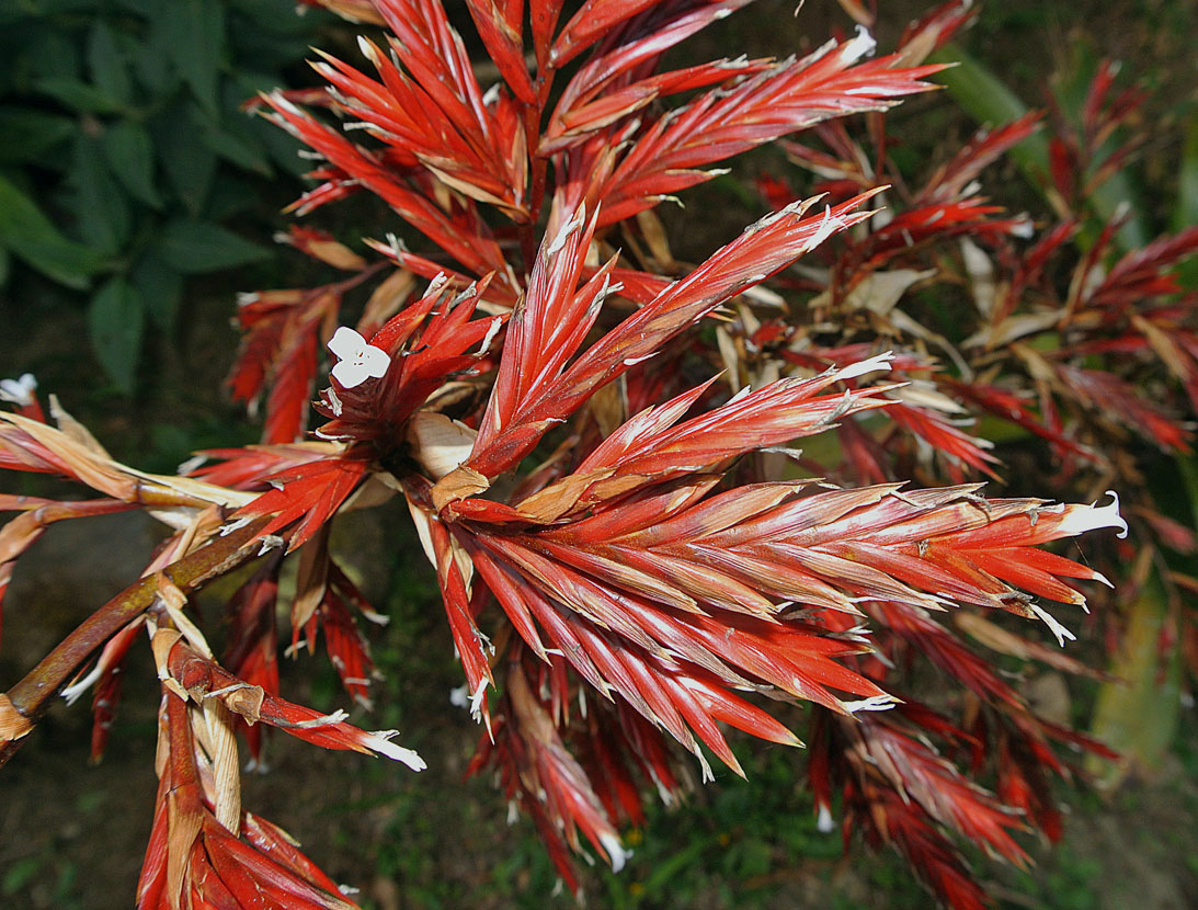 Red bracts and white flowers, from the El Dorado Lodge, Santa Marta Range, northeastern Colombia. In context at